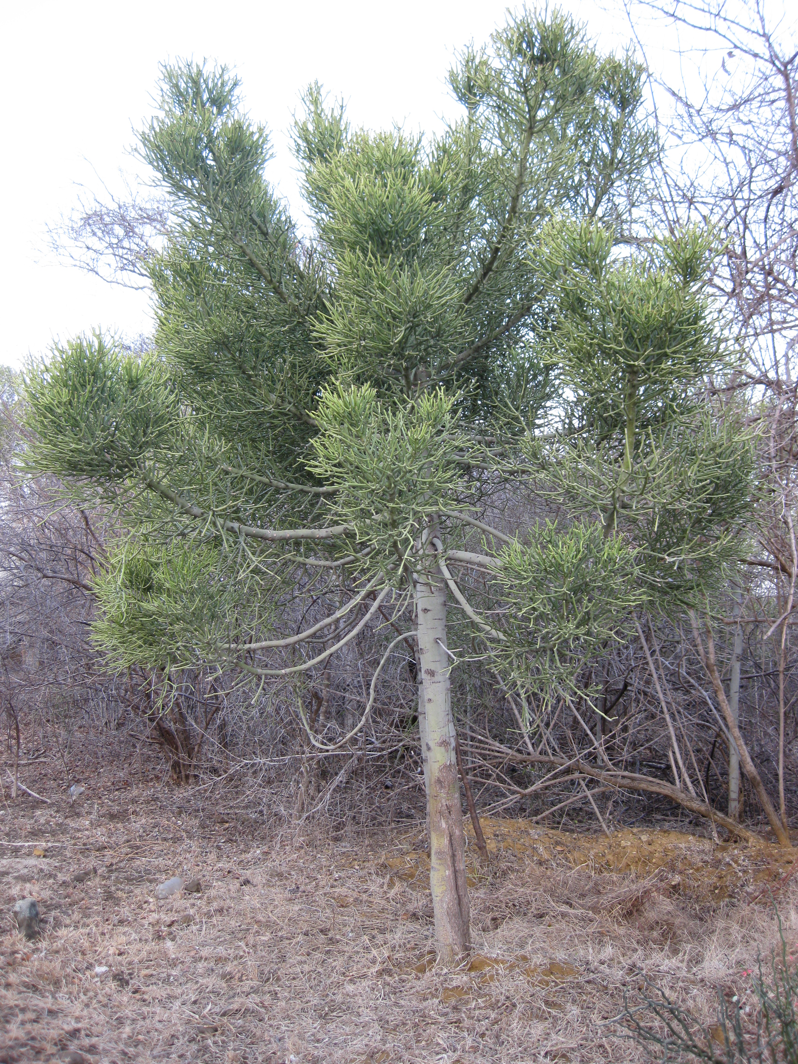 Euphorbia tirucalli taken in north Madagascar, Antsiranana